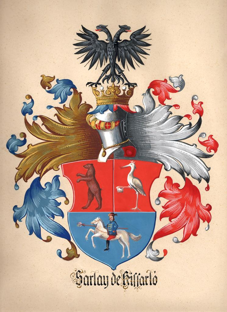 Coat of Arms of Family Sarlay de Kissarló